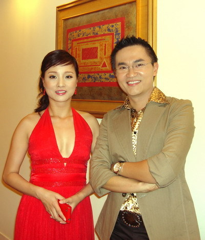 My Duyen